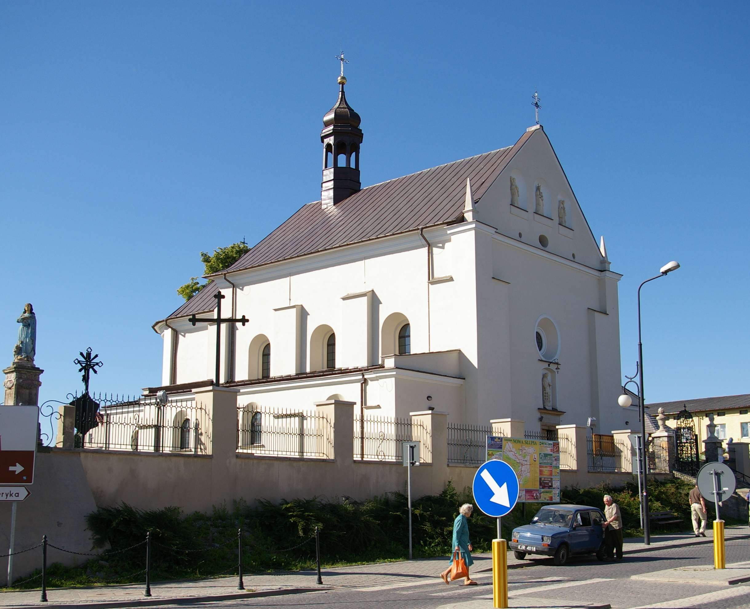 Parish church in Nowa Słupia, Poland